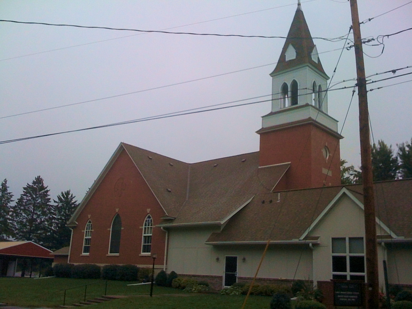 Bethlehem Lutheran Church (Askov, Minnesota) in Askov, Minnesota, listed on the National Register of Historic Places.